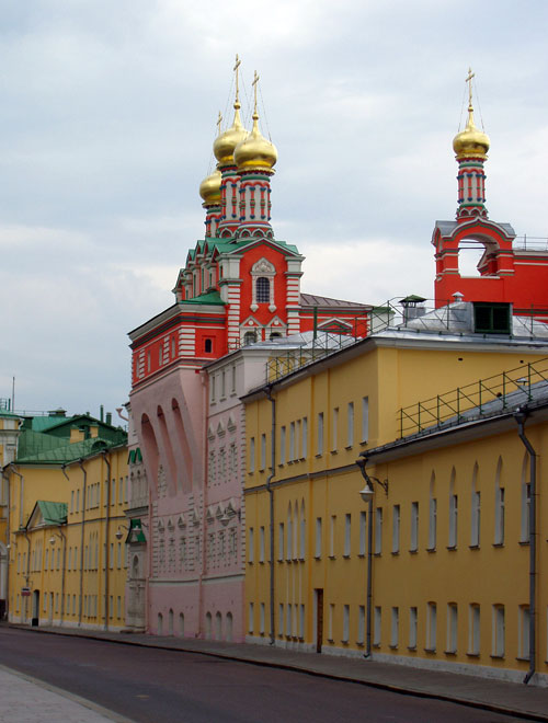 Moscow, the Kremlin. The Poteshny Palace.